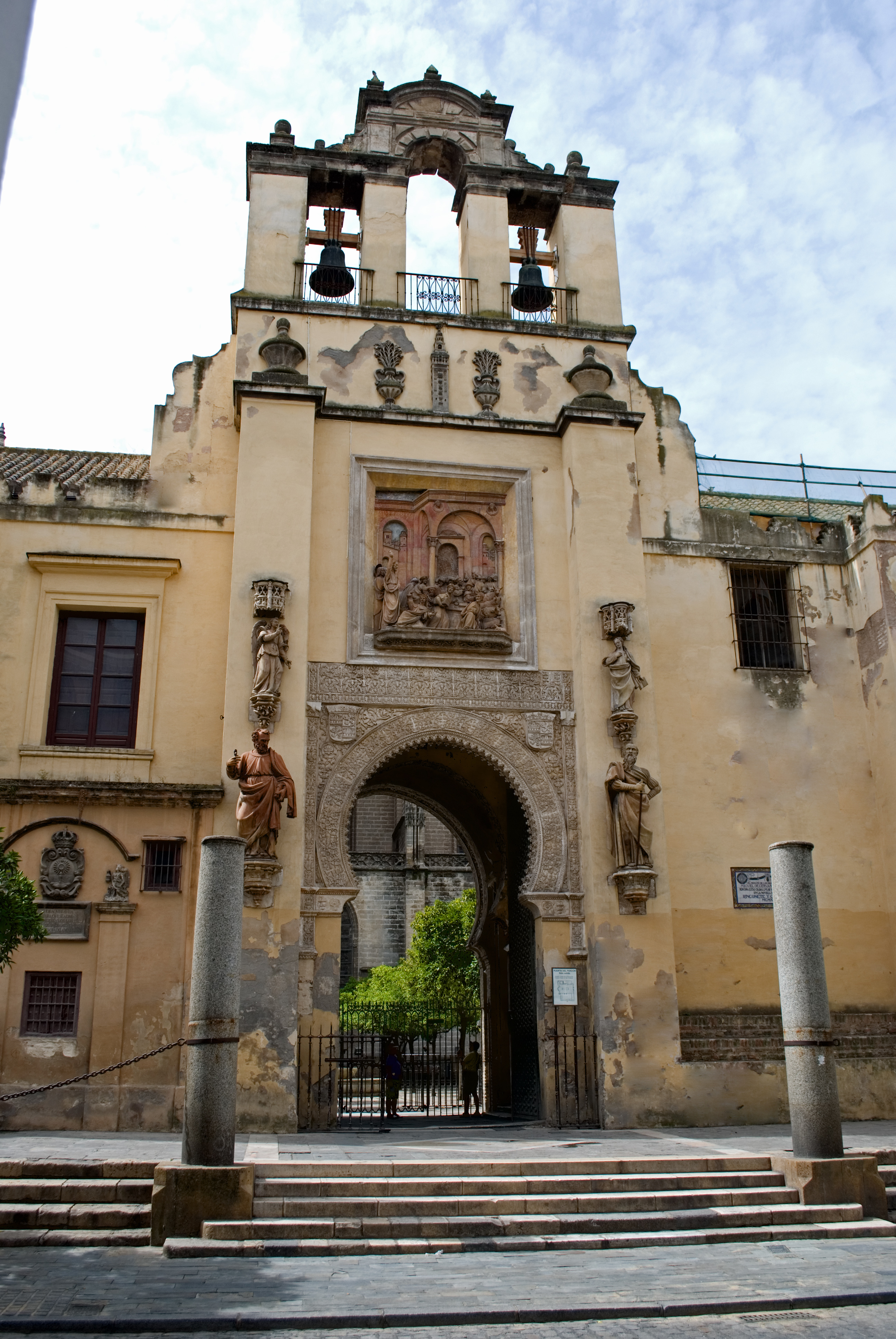 cathedral of Sevilla